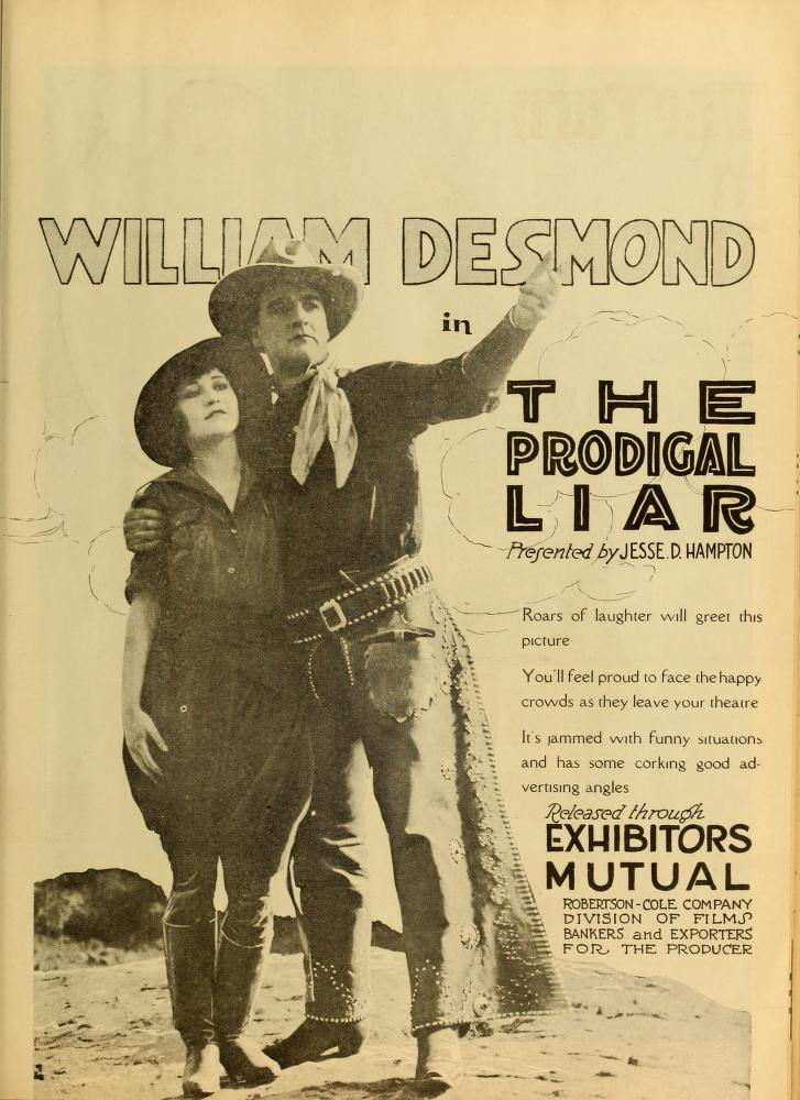 Advertisement in Moving Picture World, March 1919 the American film The Prodigal Liar (1919) with William Desmond and Betty Compson.